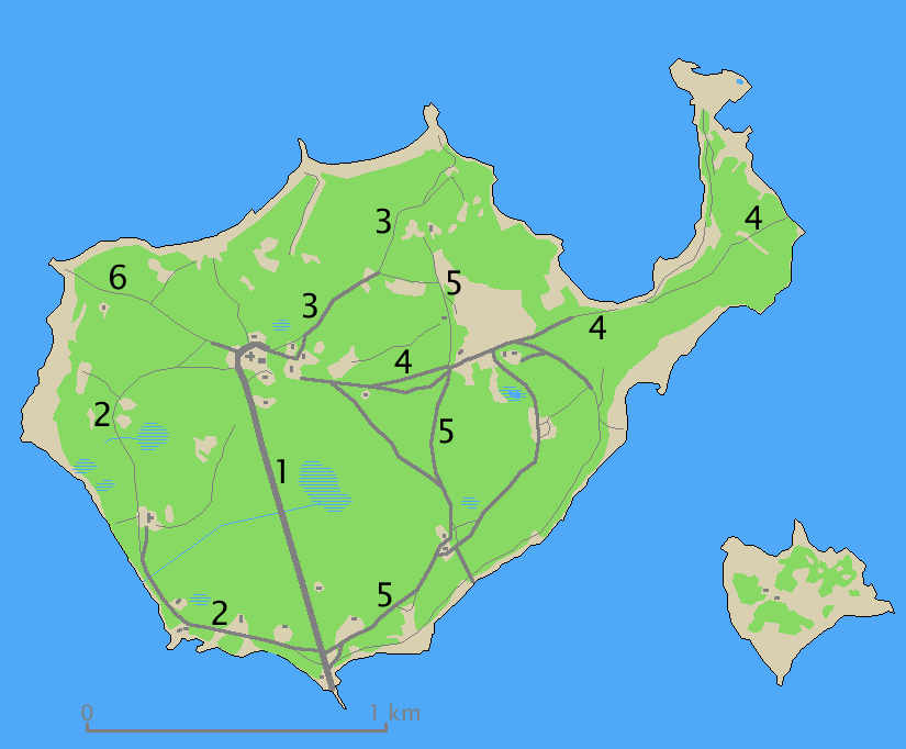 Aegna ways